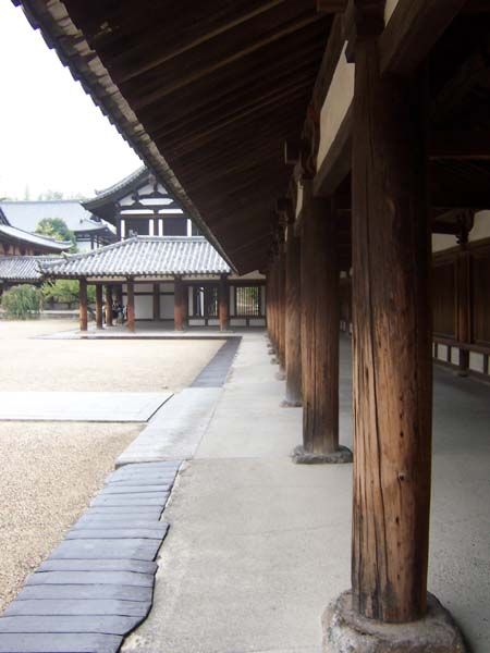 Hōryū-ji ("Temple of the Flourishing Law") is a Buddhist temple in Ikaruga, Nara Prefecture, Japan.